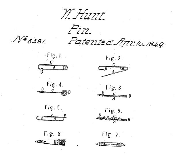 Saety pin, patent 6281